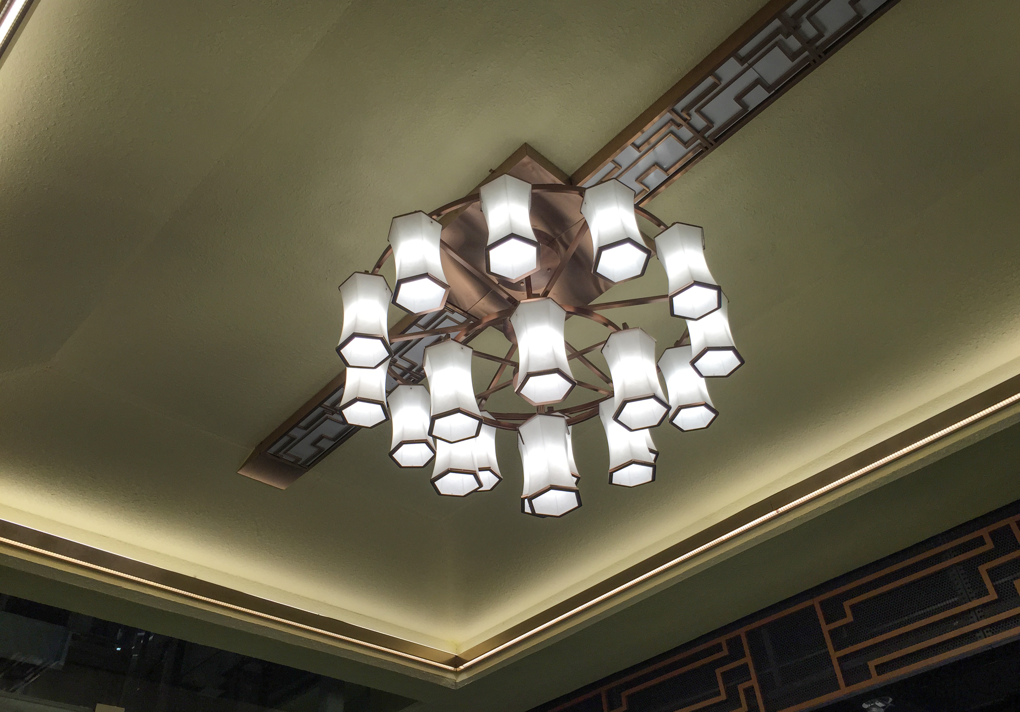 Every station on L16 has its distinct chandeliers.